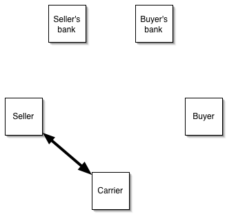 Letter of credit diagram